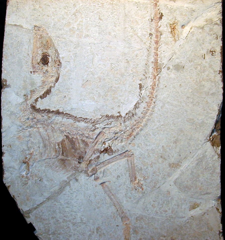 Sinosauropteryx prima Ji & Ji, 1996 feathered theropod dinosaur (holotype, part) from the Cretaceous of China (NGMC 2123, National Geological Museum of China, Beijing, China). This is Sinosauropteryx prima, the first ever discovered & most famous feathered dinosaur. A relative abundance of feathered dinosaurs and early birds has been found in the Jehol Group of northeastern China. The most famous & most frequently illustrated Sinosauropteryx specimen is the holotype, which consists of part & counterpart slabs (each is housed at separate institutions in China). The dark fringe running down the neck, back & tail represents feathers. This animal was a relatively small theropod dinosaur. Classification: Animalia, Chordata, Vertebrata, Dinosauria, Saurischia, Theropoda, Compsognathidae Stratigraphy: lower Yixian Formation, Yehol Group, near-lowermost Cretaceous Locality: Sihetun Quarry, Shangyuan, Beipiao City, Liaoning Province, northeastern China By the way, this is my photo of the actual holotype slab, which was on temporary display at Yale University's Peabody Museum of Natural History (New Haven, Connecticut, USA) in 1999. Theropod were small to large, bipedal dinosaurs. Almost all known members of the group were carnivorous (predators and/or scavengers). They represent the ancestral group to the birds, and some theropods are known to have had feathers. Some of the most well known dinosaurs to the general public are theropods, such as Tyrannosaurus, Allosaurus, and Spinosaurus.